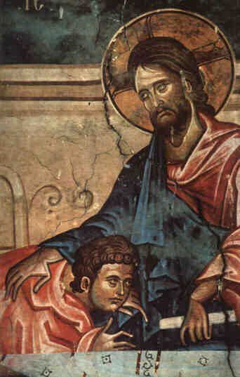 Damian. "Jesus Christ and St. John the Apostle". A detail of the Last Supper fresco from Ubisi, Georgia